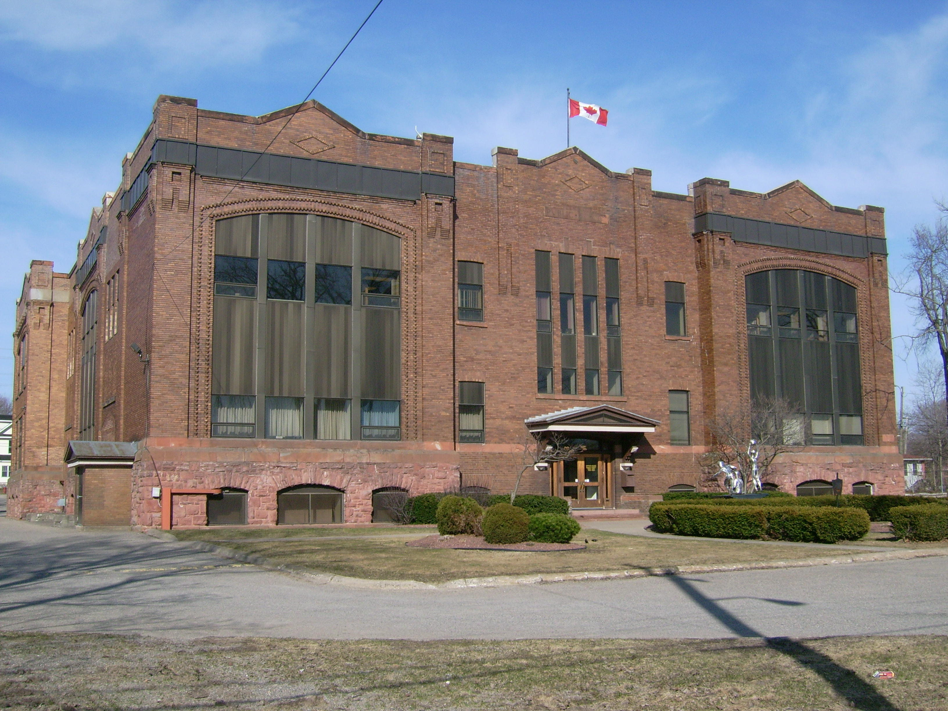 Algoma District School Board building, Sault Ste. Marie, Ontario. Formerly the Central Public School.